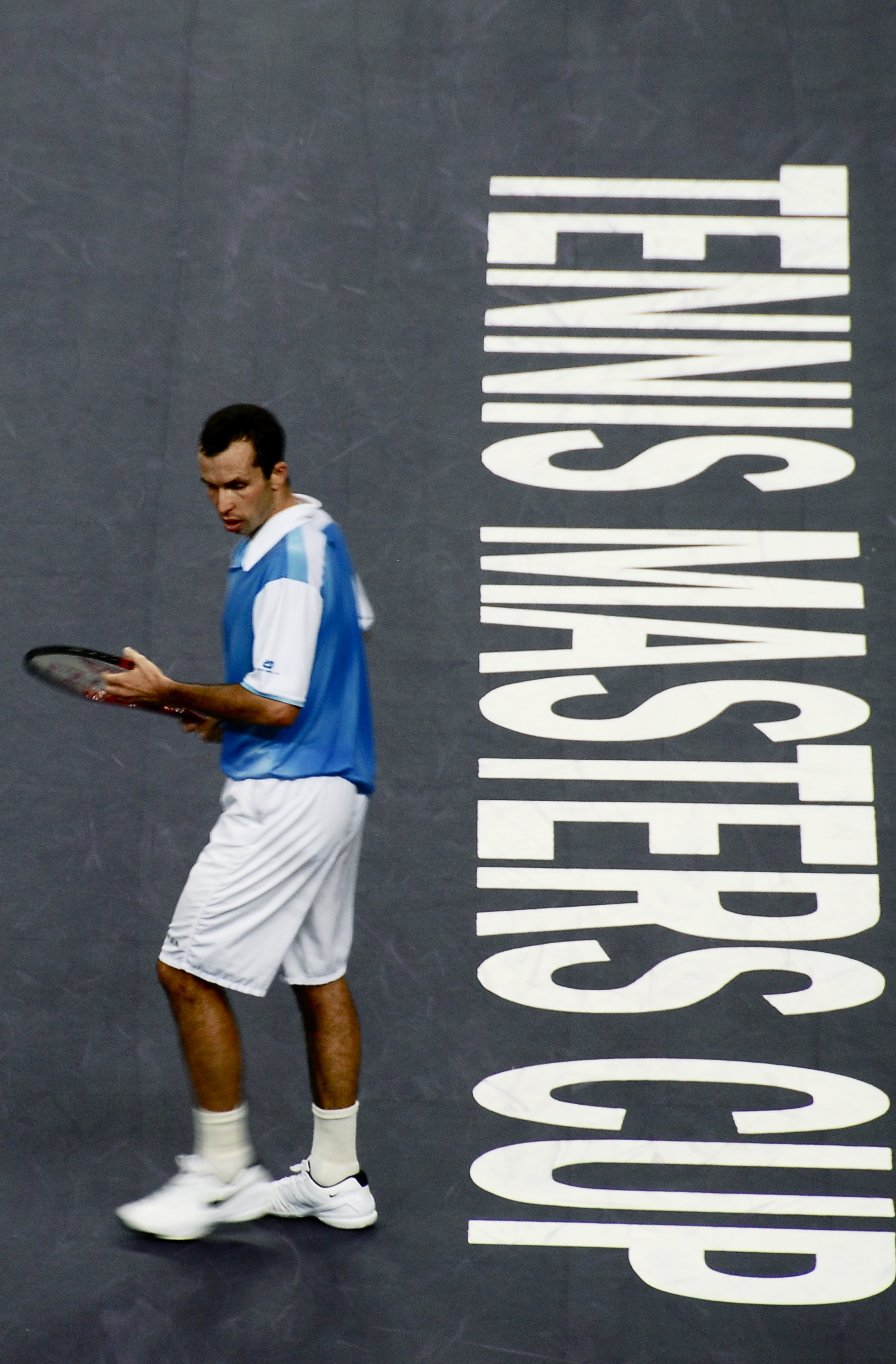 Radek Stepanek against Gilles Simon at the 2008 Tennis Masters Cup